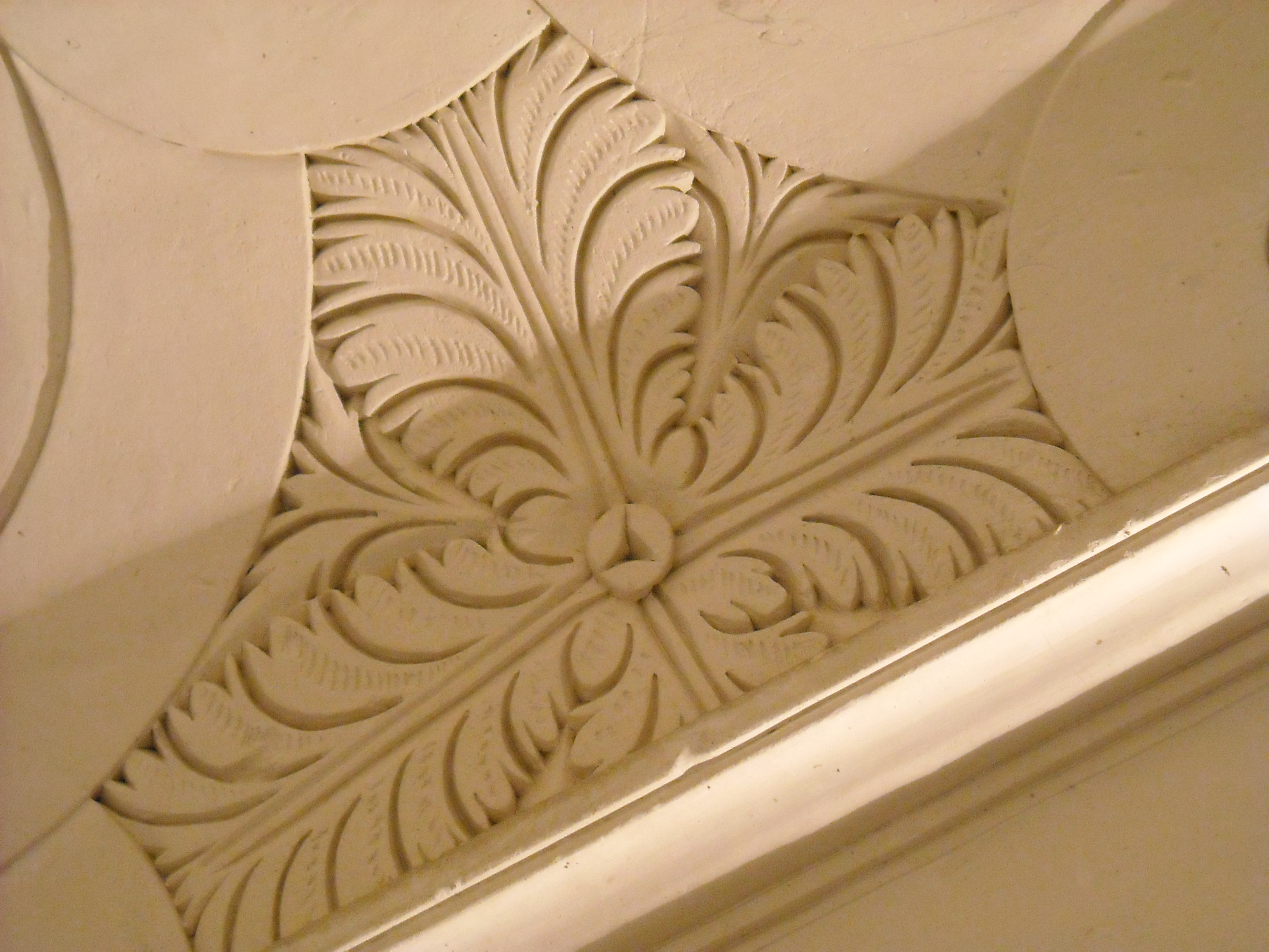 détail d'une gypserie dans l'escalier de Volonne